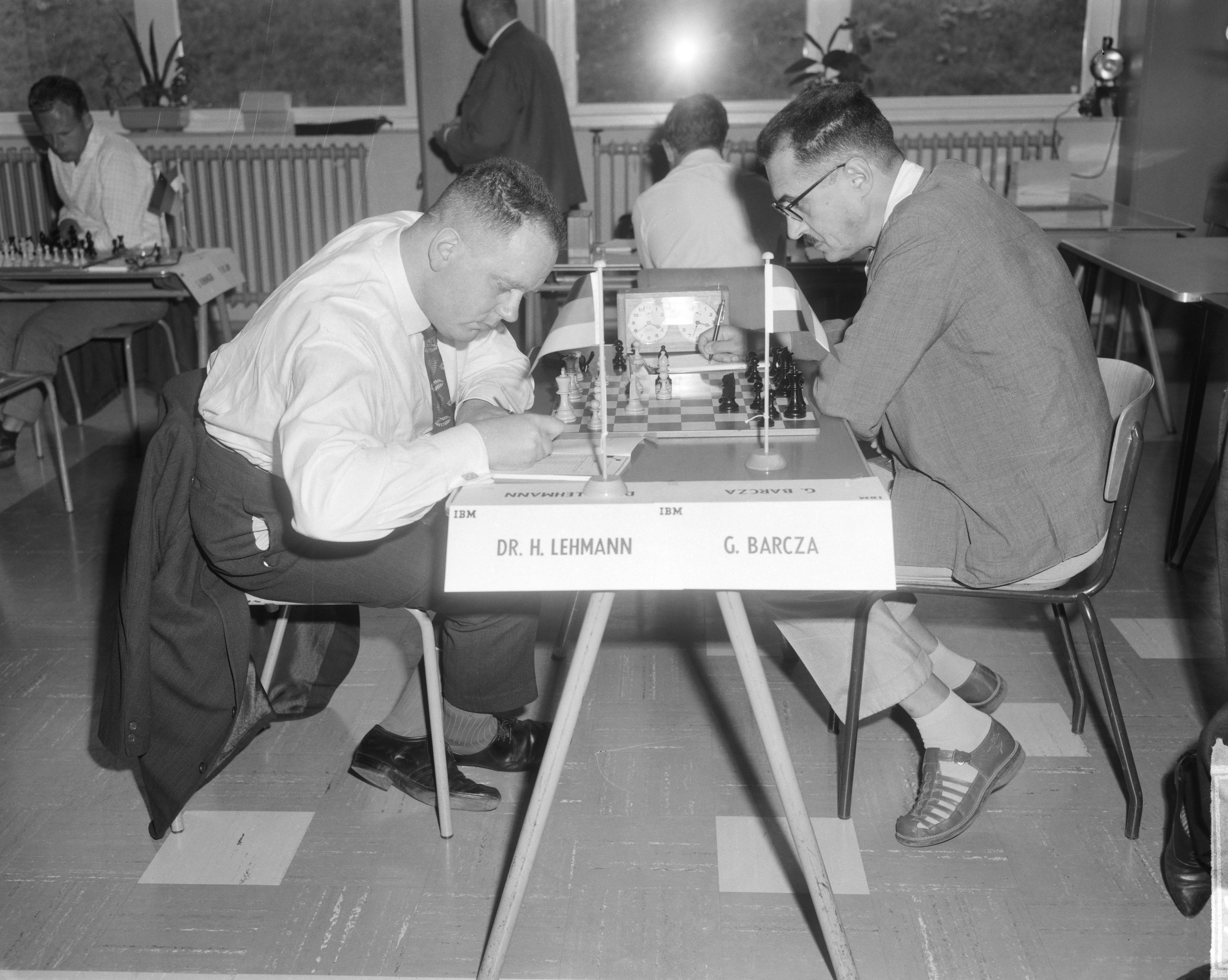 IBM chess tournament Amsterdam, 1964. Heinz Lehmann & Gedeon Barcza.